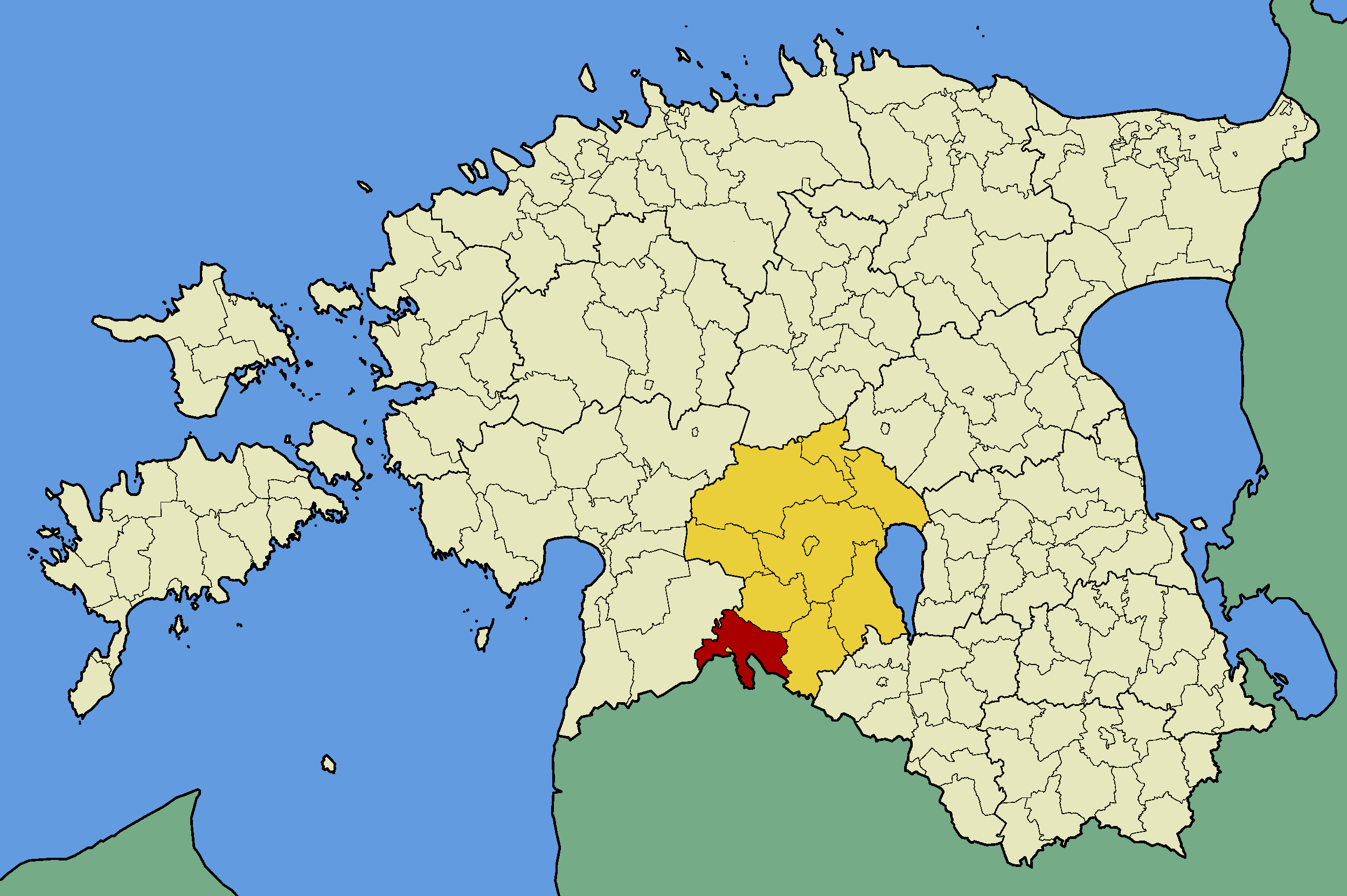 Map of Estonia with borders of municipalities (parishes). Viljandi county and Abja municipality emphasized.